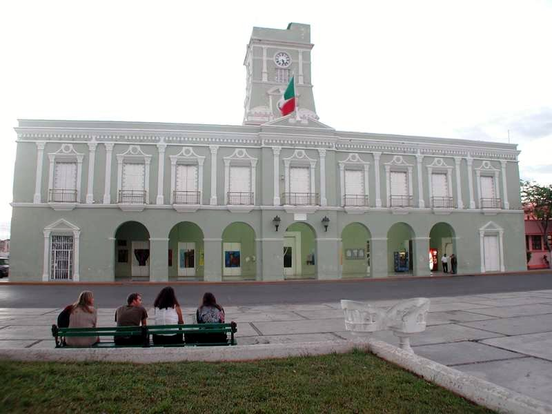 City Hall Progreso.